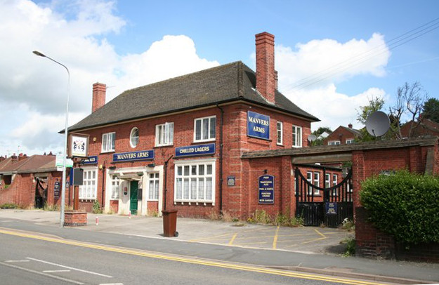 Manvers Arms Recently closed and up for sale pub on Monks Road